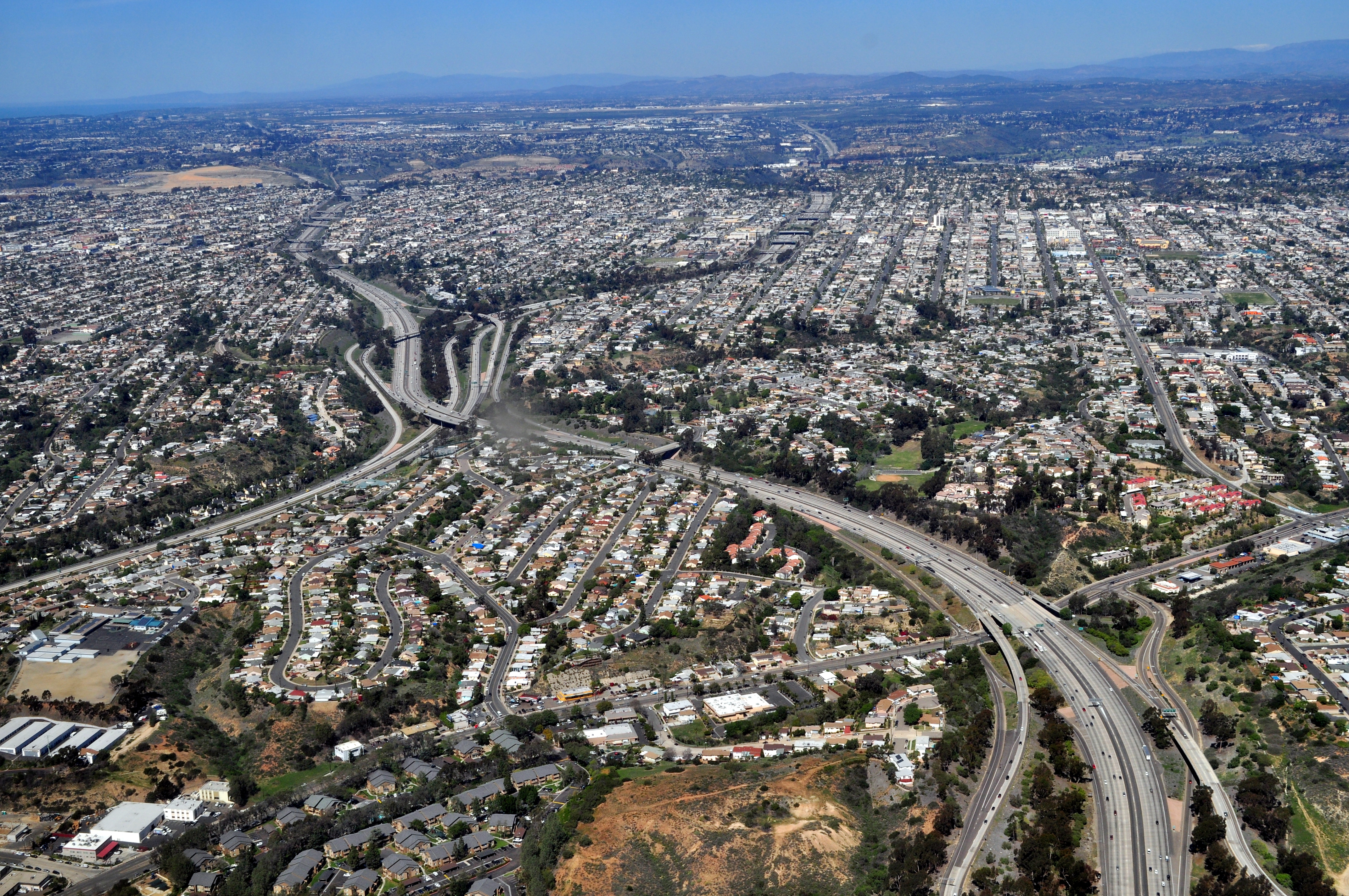 Aerial view looking roughly north at Interstate 805 in San Diego, California, running here from lower right to upper left. The major intersection here is with Wabash Boulevard running from lower left, which becomes California Route 15 (the Escondido Freeway) at upper right.